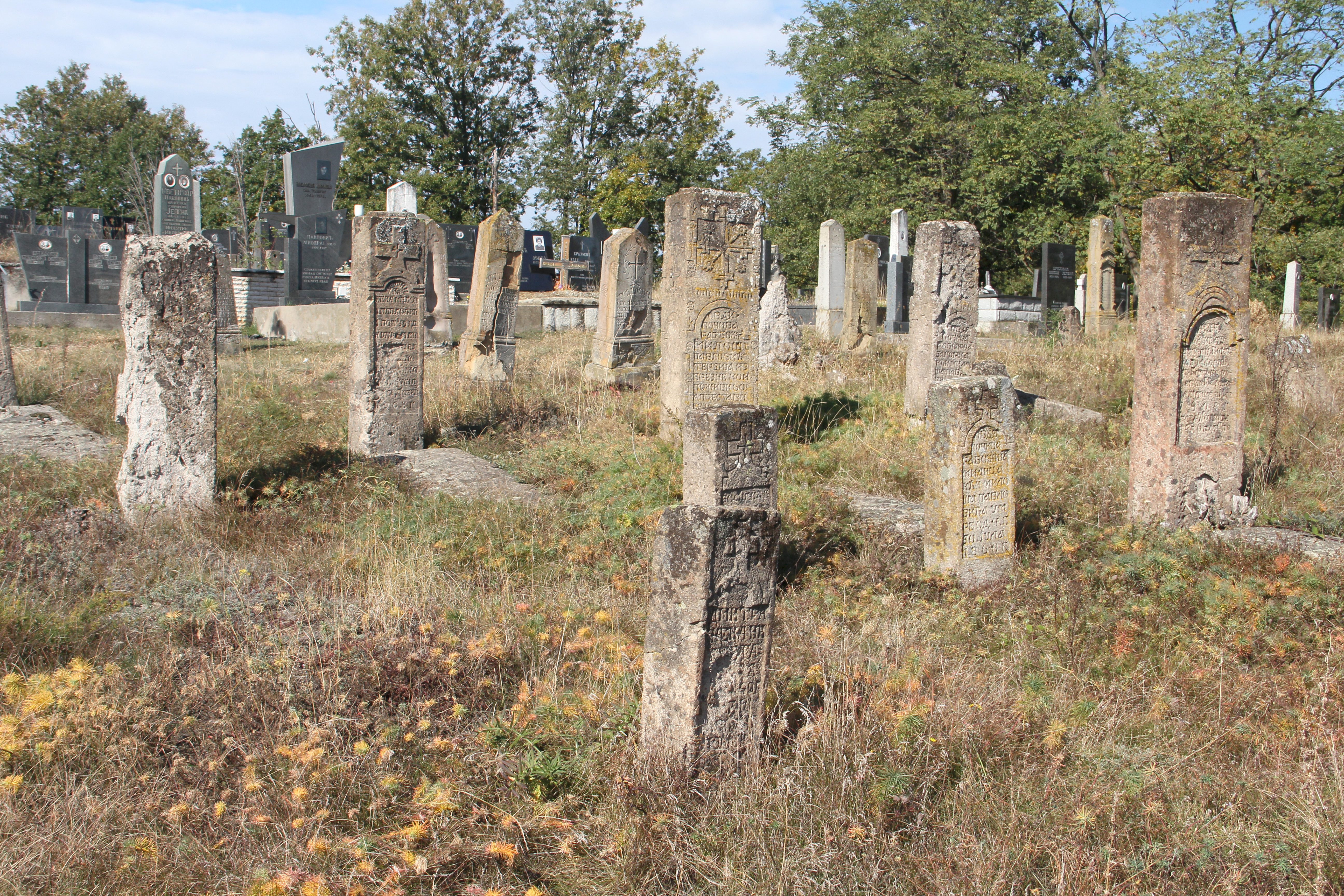 Old gravestones at the cemetery in the village of Brezna (the municipality of Gornji Milanovac), Serbia.